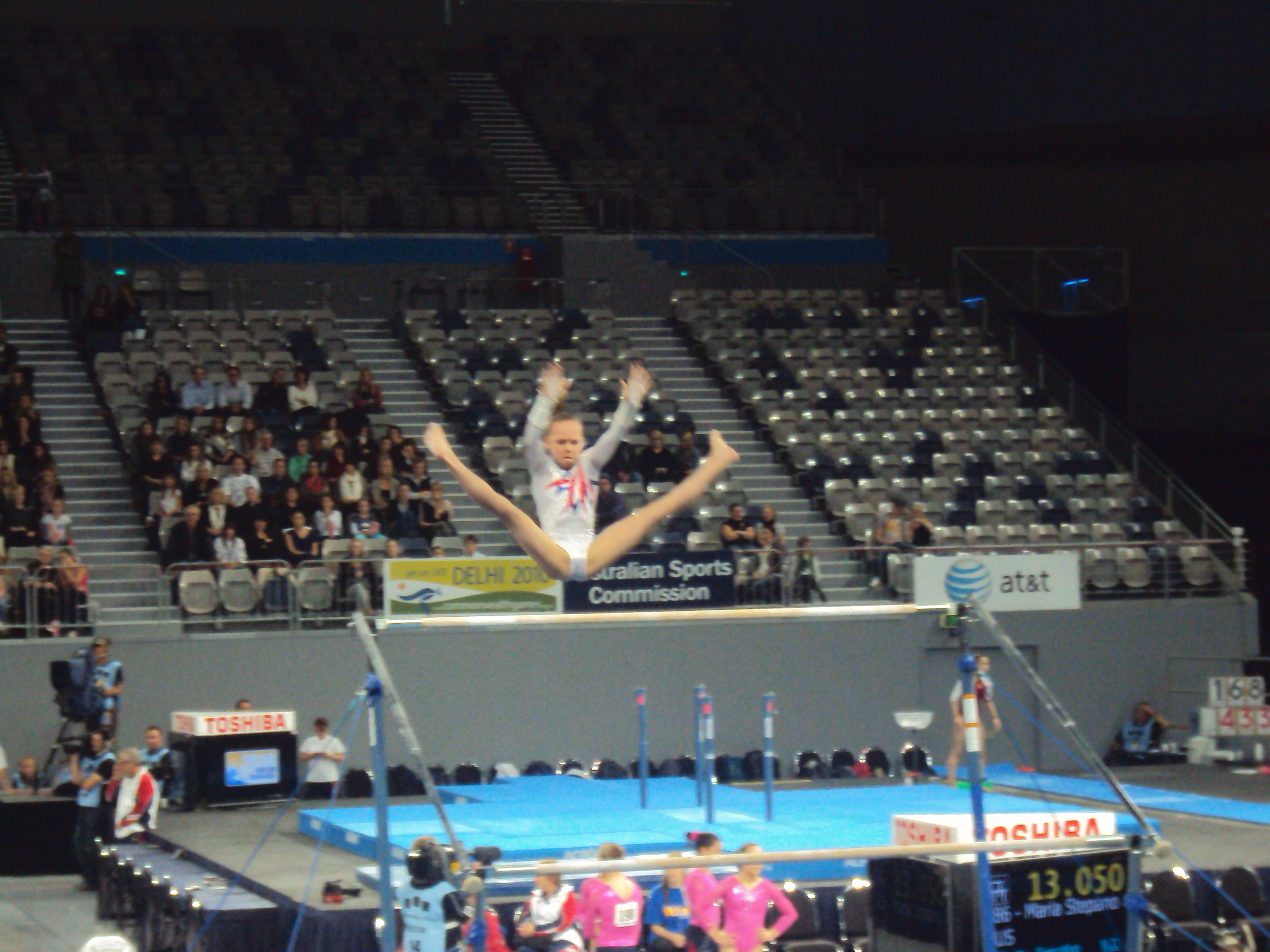 A gymnast performs a tkachev on the Uneven Bars at the Pacific Rim Championships in Melbourne in 2010